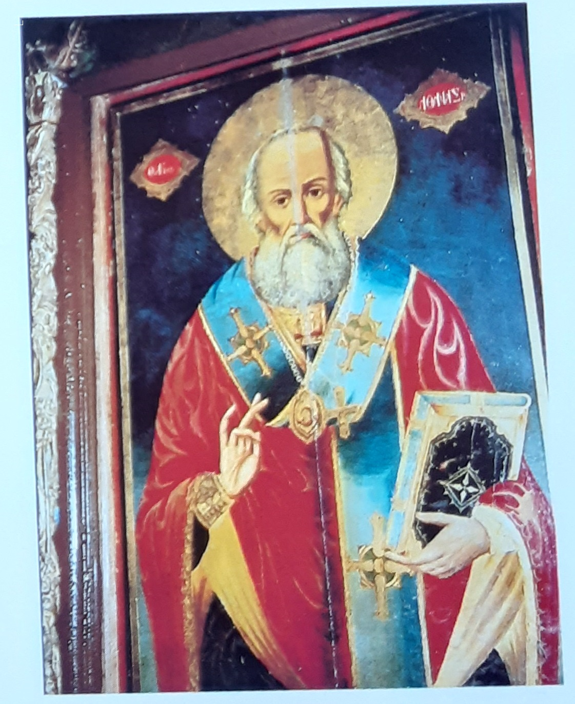 Saint Paraskevi of Ikonomos Church Icon of Saint Atanasius by Athanasios Panagiotou